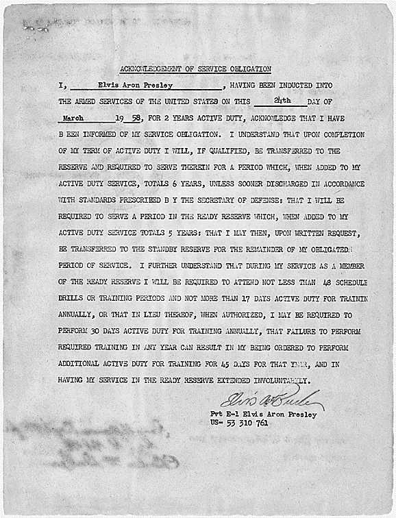 Acknowledgment of service obligation signed by Elvis Presley